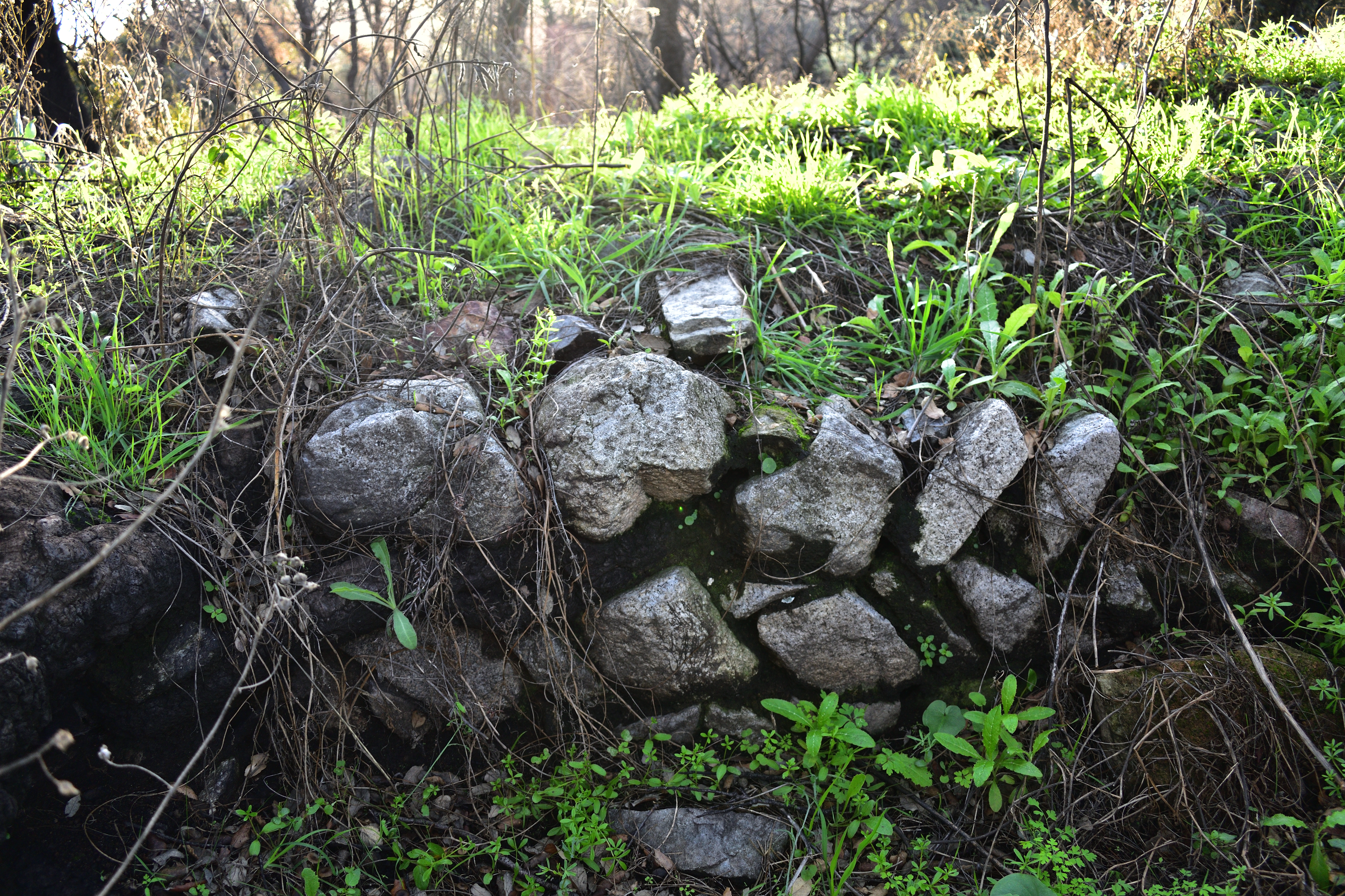 Castle of Alferce, in the region of Algarve, in Portugal.